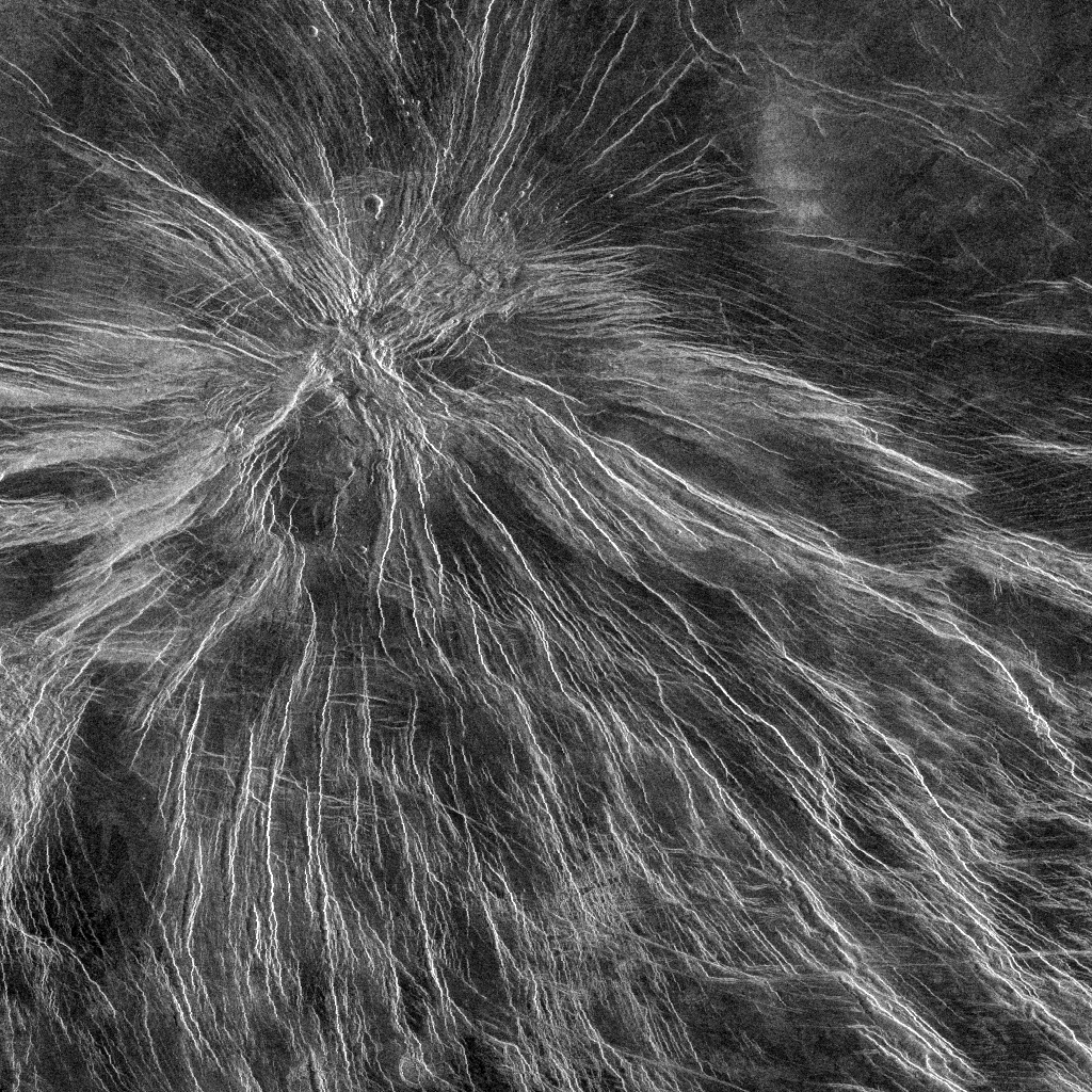 Original caption: Magellan image of a nova, a radial network of grabens, in Themis Regio, Venus. There have been about 50 novae identified on Venus, which consist of closely spaced graben radiating from a central area. This nova is about 250 km in diameter, concentrated to the south. (North is up.) (Magellan C1-MIDR 30S279;1,framelet 18)